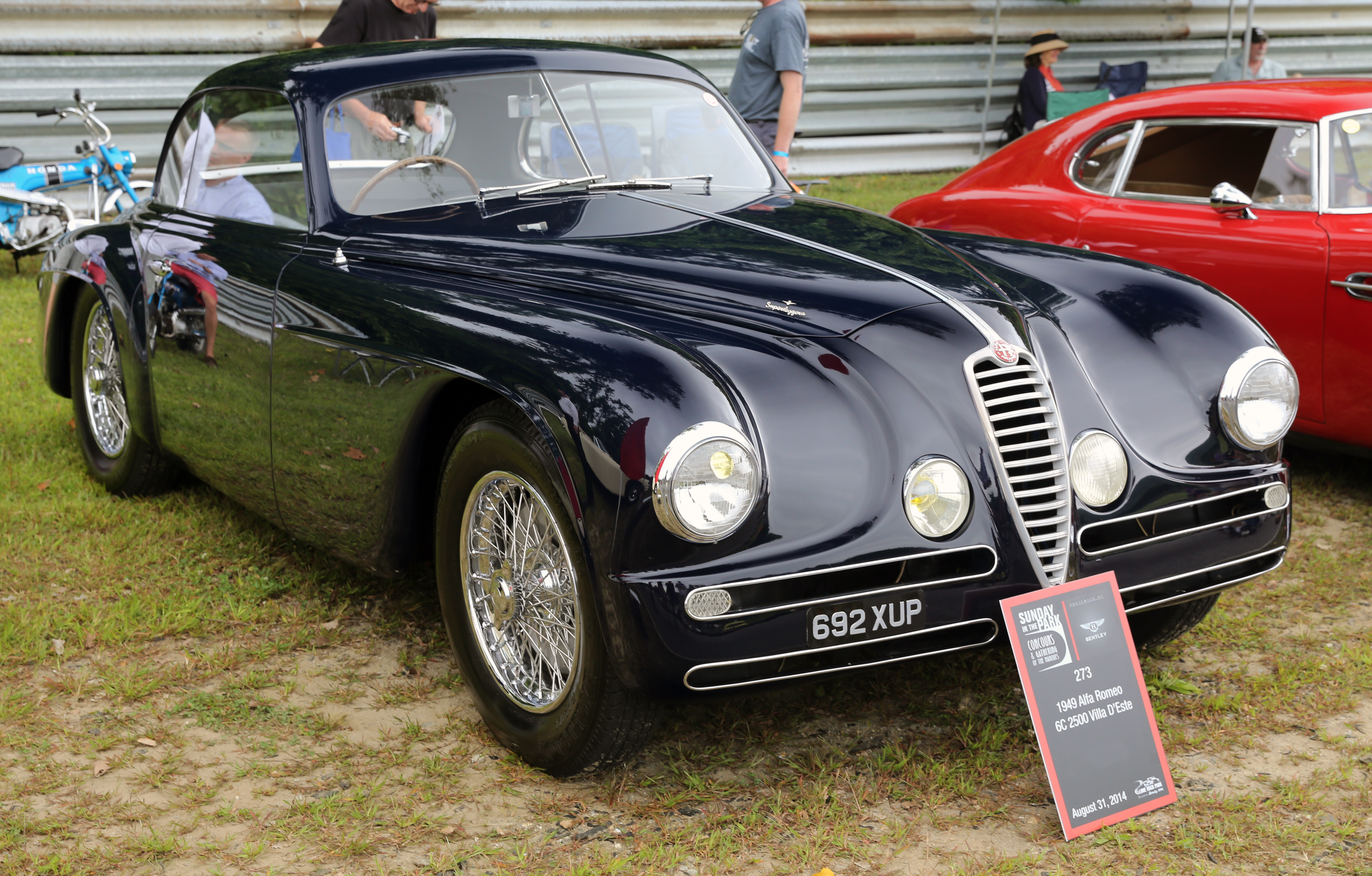 A 1949 Alfa Romeo 6C 2500 SS Villa d'Este (Touring) at the 2014 Lime Rock Concours d'Élegance. A regular on the show circuits, 692 XUP recently moved from the Netherlands to its new American owner. Chassis no. 915.882, engine no. 928.190, Touring bodywork no. 3442. 105 hp.